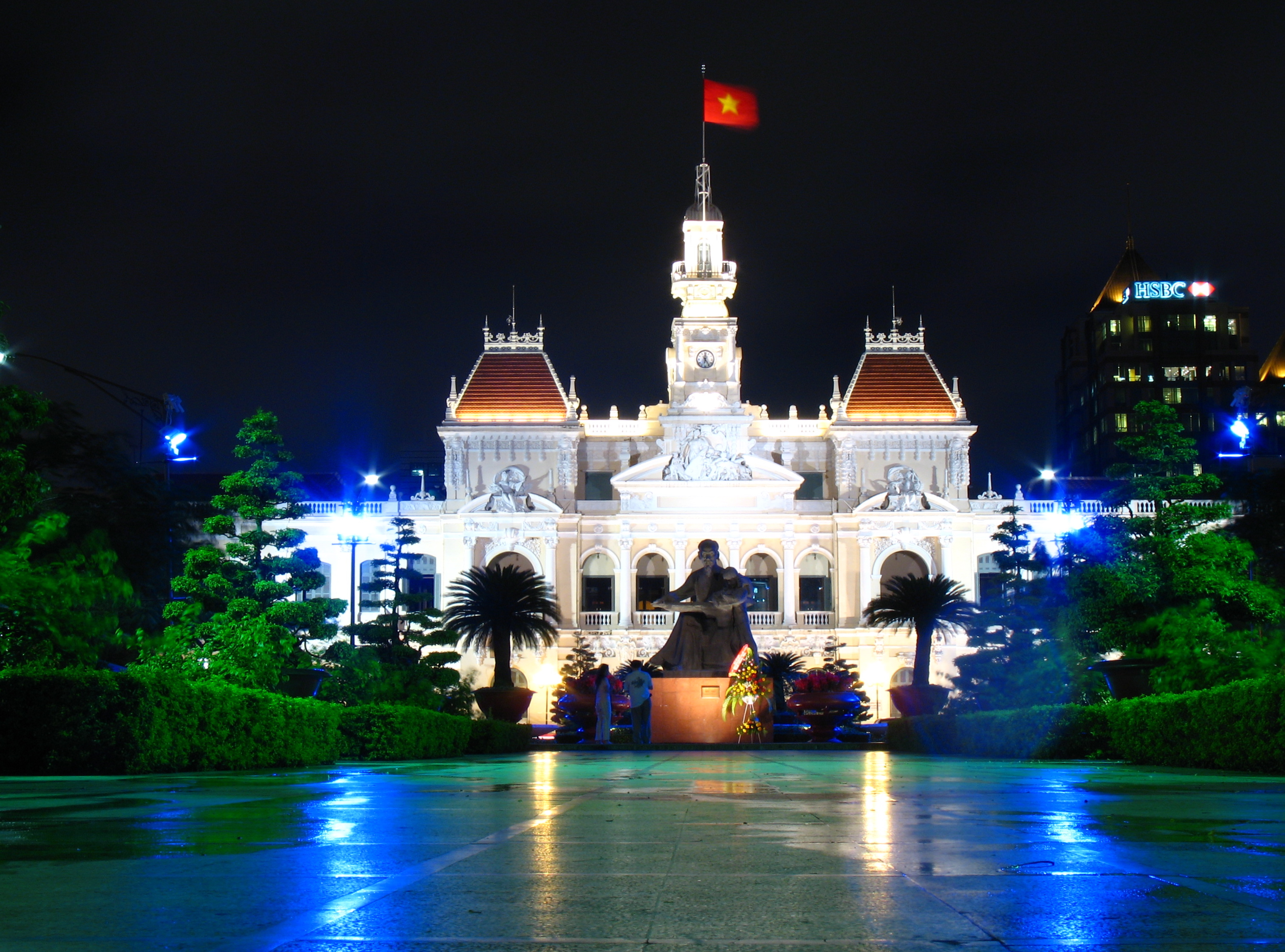 I quite like this shot actually. Thanks for lending me your tripod Stan.